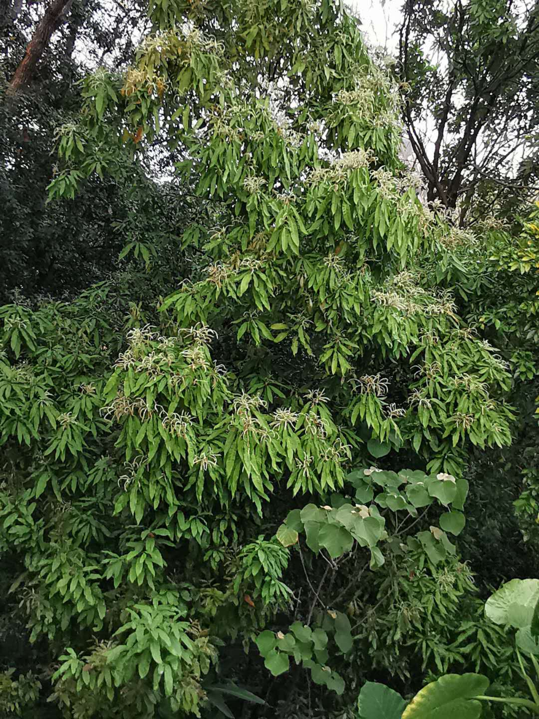 Lithocarpus hancei. Botanical Garden of National Museum of Natural Science, Taichung, Taiwan.